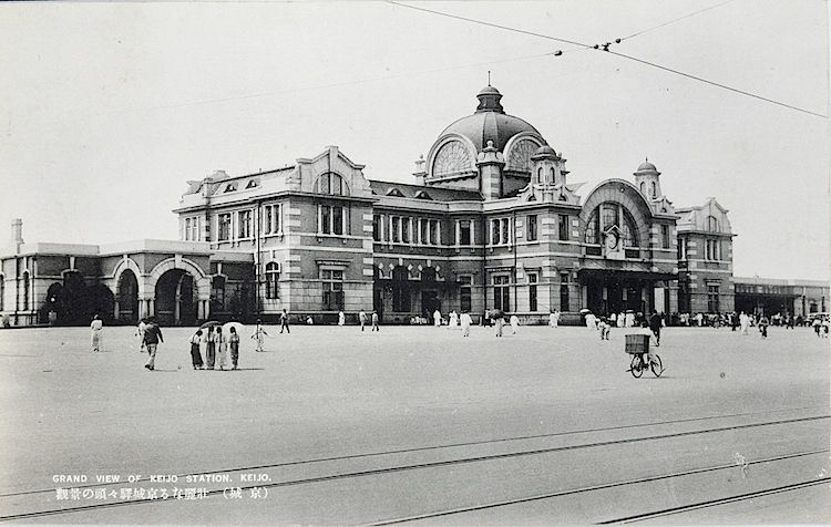 Tsukamoto Yasushi: Seoul station, 1925, Korea